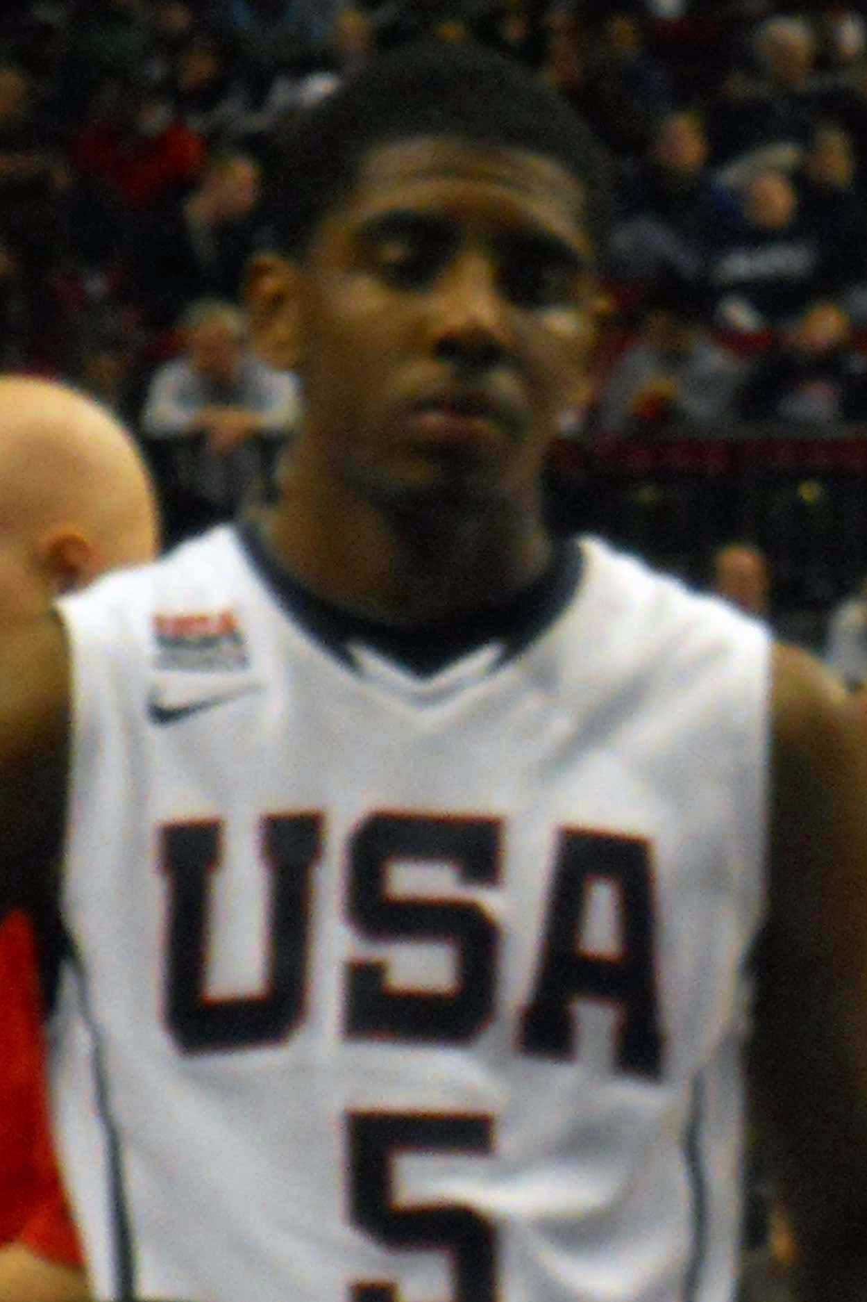 Kyrie Irving at the 2010 Nike Hoop Summit This file has been extracted from another file: Harrison Barnes and Kyrie Irving at the 2010 Nike Hoop Summit.jpg